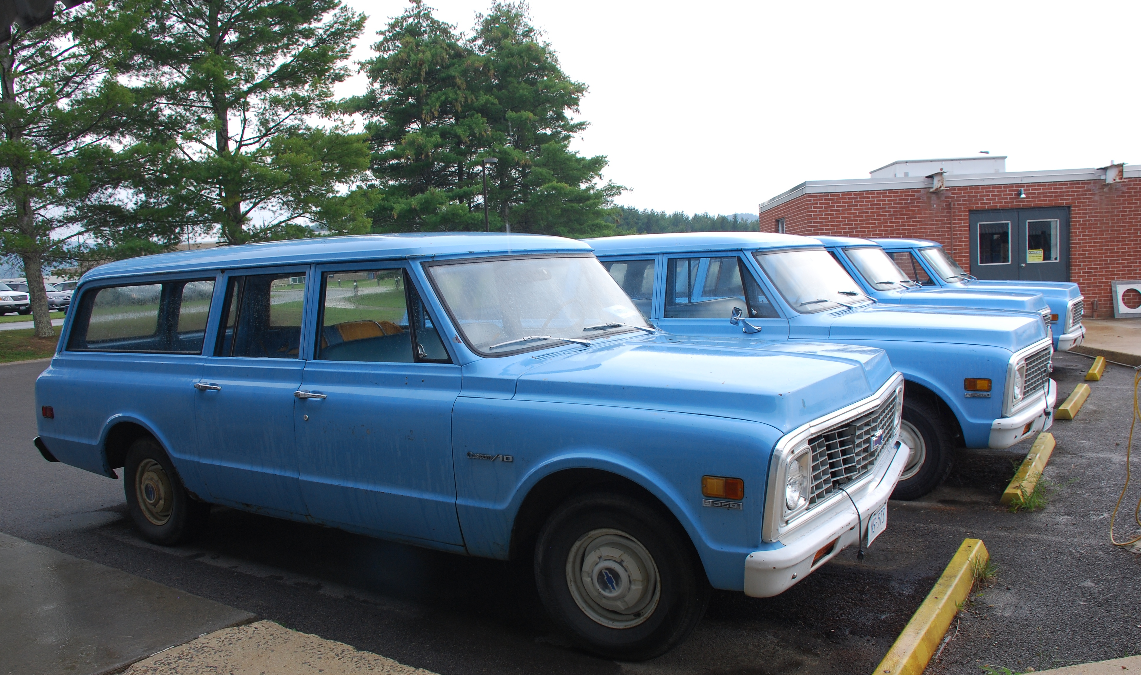 National Radio Astronomy Observatory in Green Bank, West Virginia uses a fleet of old (no computer) diesel (no spark-plugs) cars and trucks for the site maintenance to minimize radio pollution around the telescopes. Here four Chevy Suburbans C10 350 as part of the government fleet.